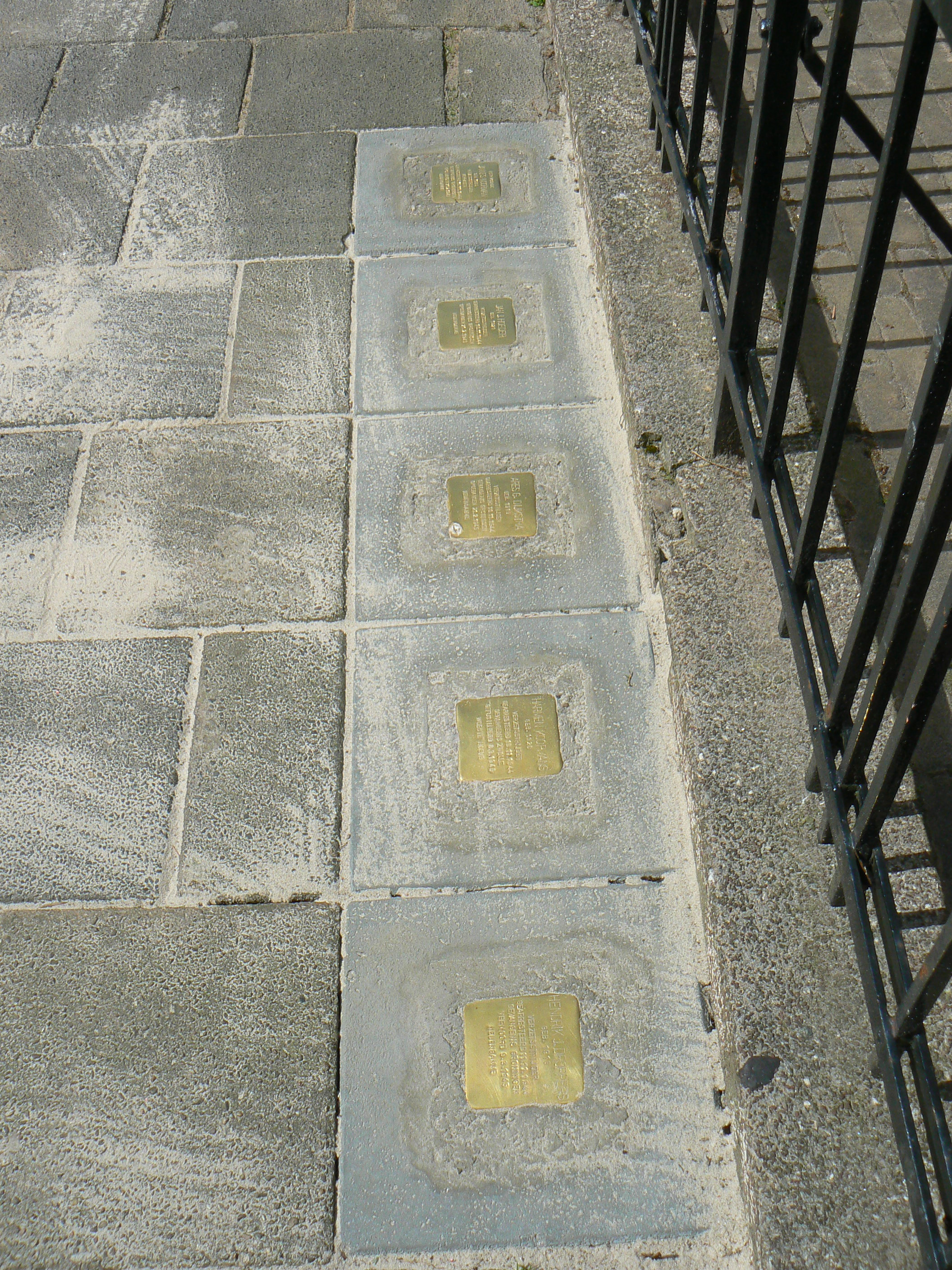 Stolpersteine 11-04-2010 (5 members of the resistance movement), Anna Paulownastraat 26 in Groningen/The Netherlands